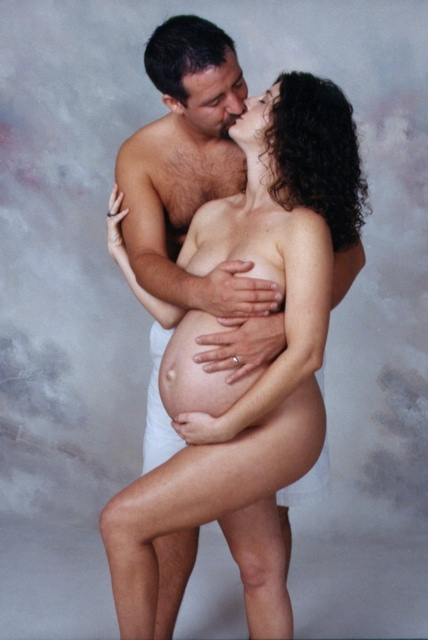 Object: picture of couple with pregnant woman embracing Source: self Photogrvoir imageapher: Nils Fretwurst / Foto: Nils Fretwurst Date: 2003